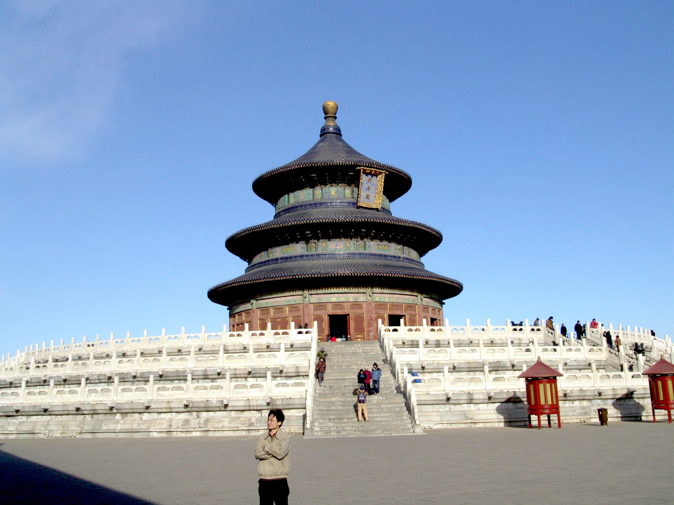 Temple of Heaven 2